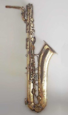 Baritone saxophone